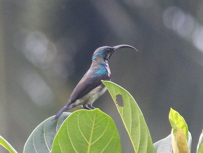 Loten's Sunbird in eclipse plumage pictured in Thiruvananthapuram, Nov 2014